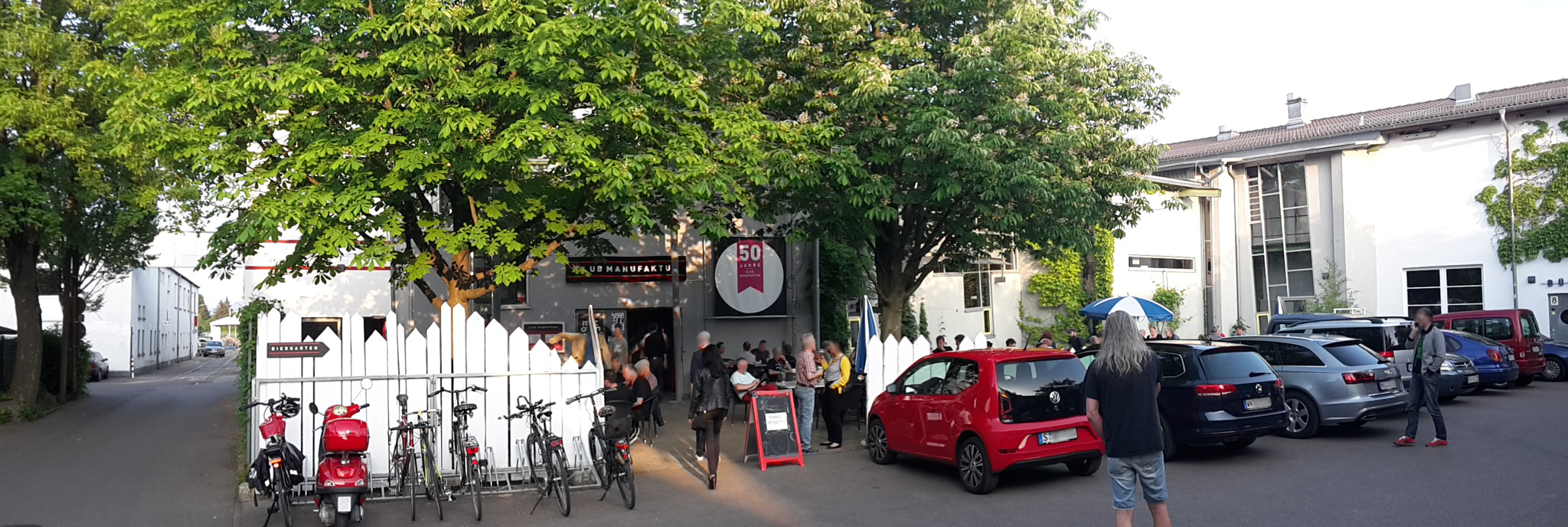 Club Manufaktur, Schorndorf, also site of the Kleine Fluchten movie theatre